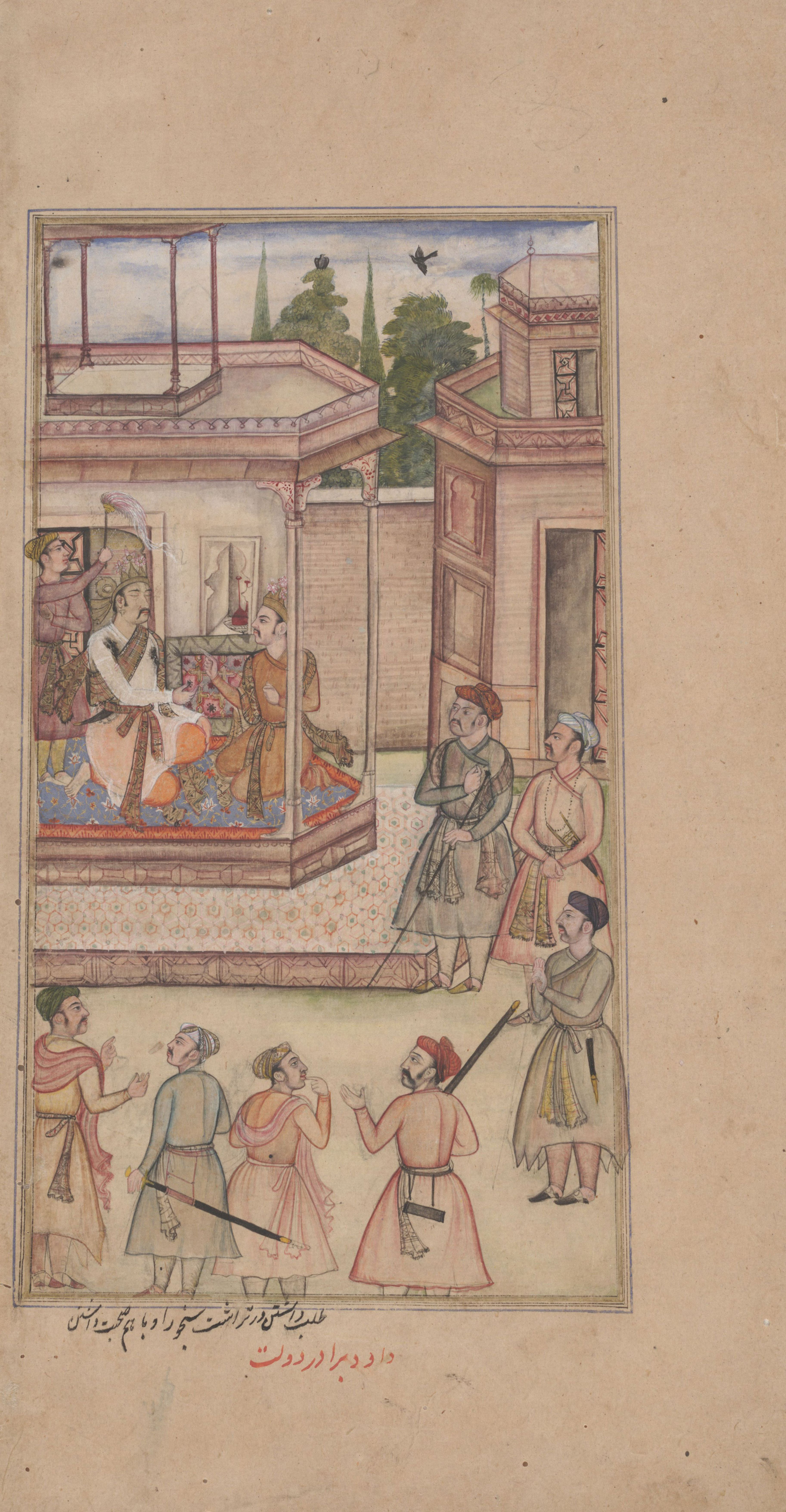 From Razmnama (Book of War)